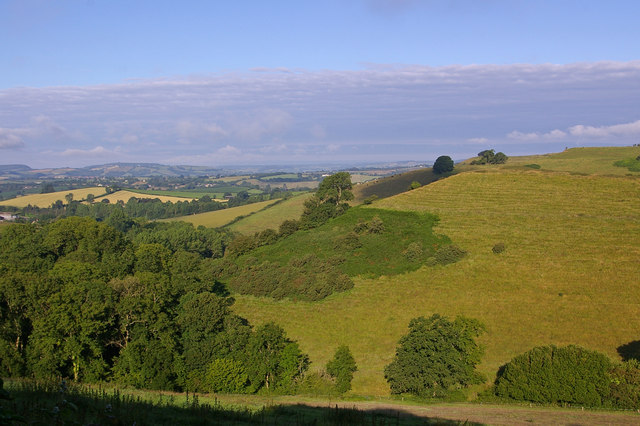 Strip Lynchets Viewed from near Mapperton Farm